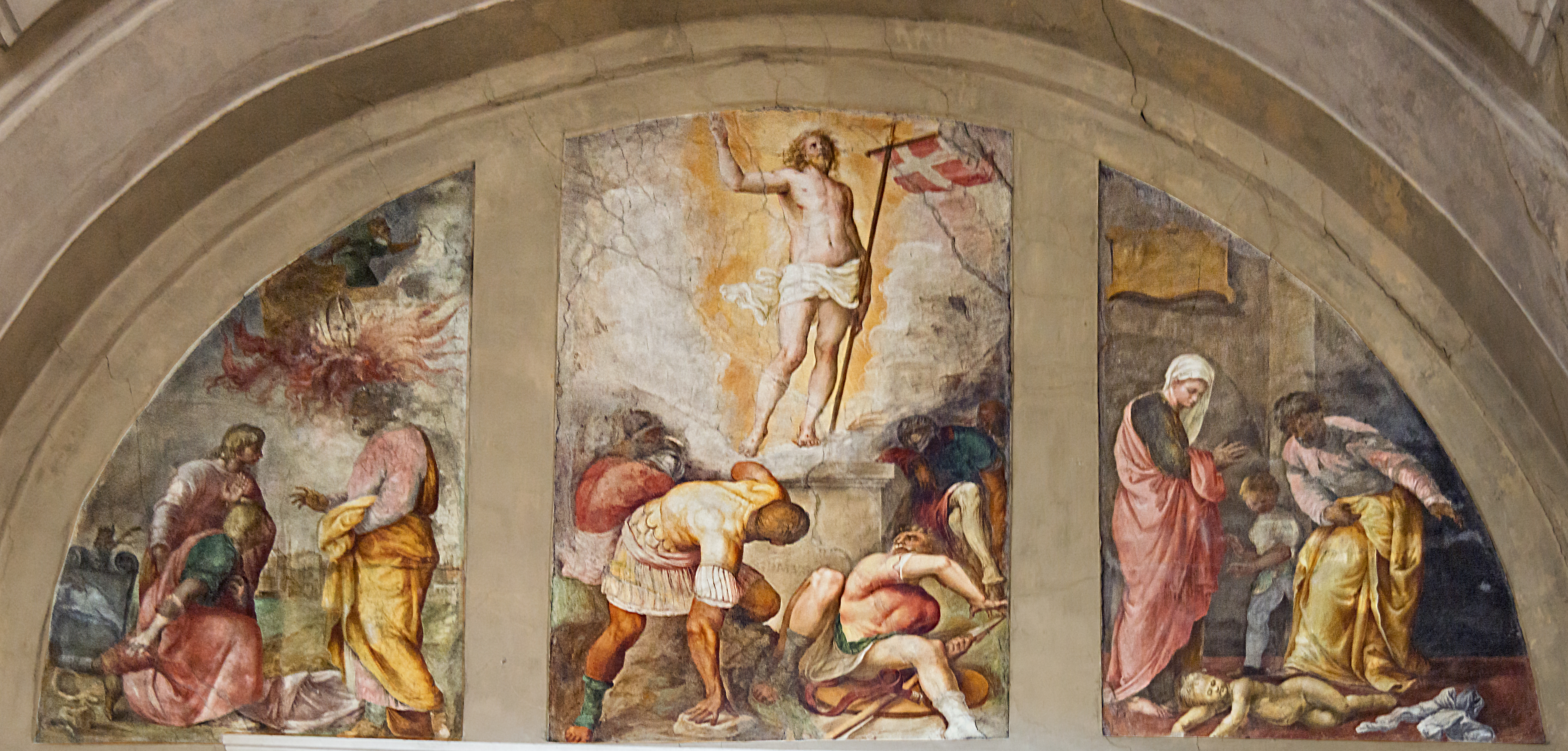 Cappella Grimani of San Francesco della Vigna (Venice). Above the altar three paintings, center: "Resurrection of Christ", right: "Elijah healed the son of the widow" and left "Elijah and the chariot of fire", by Battista Franco.